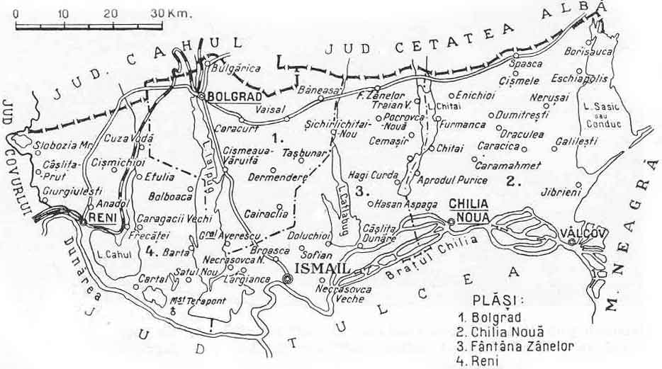 Map of Ismail interwar county, Kingdom of Romania (1938).